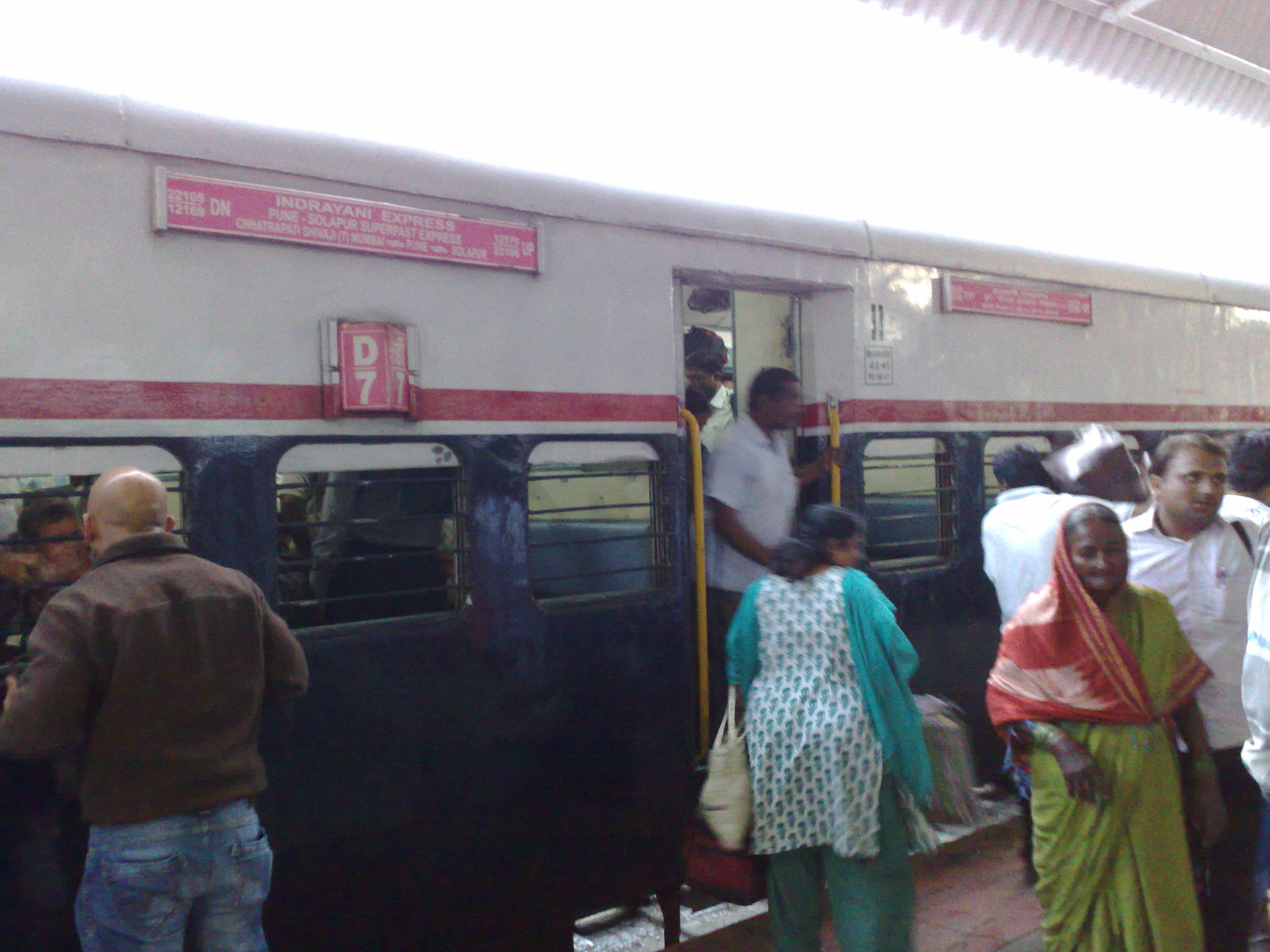 22106 Indrayani Express - 2nd Class seating